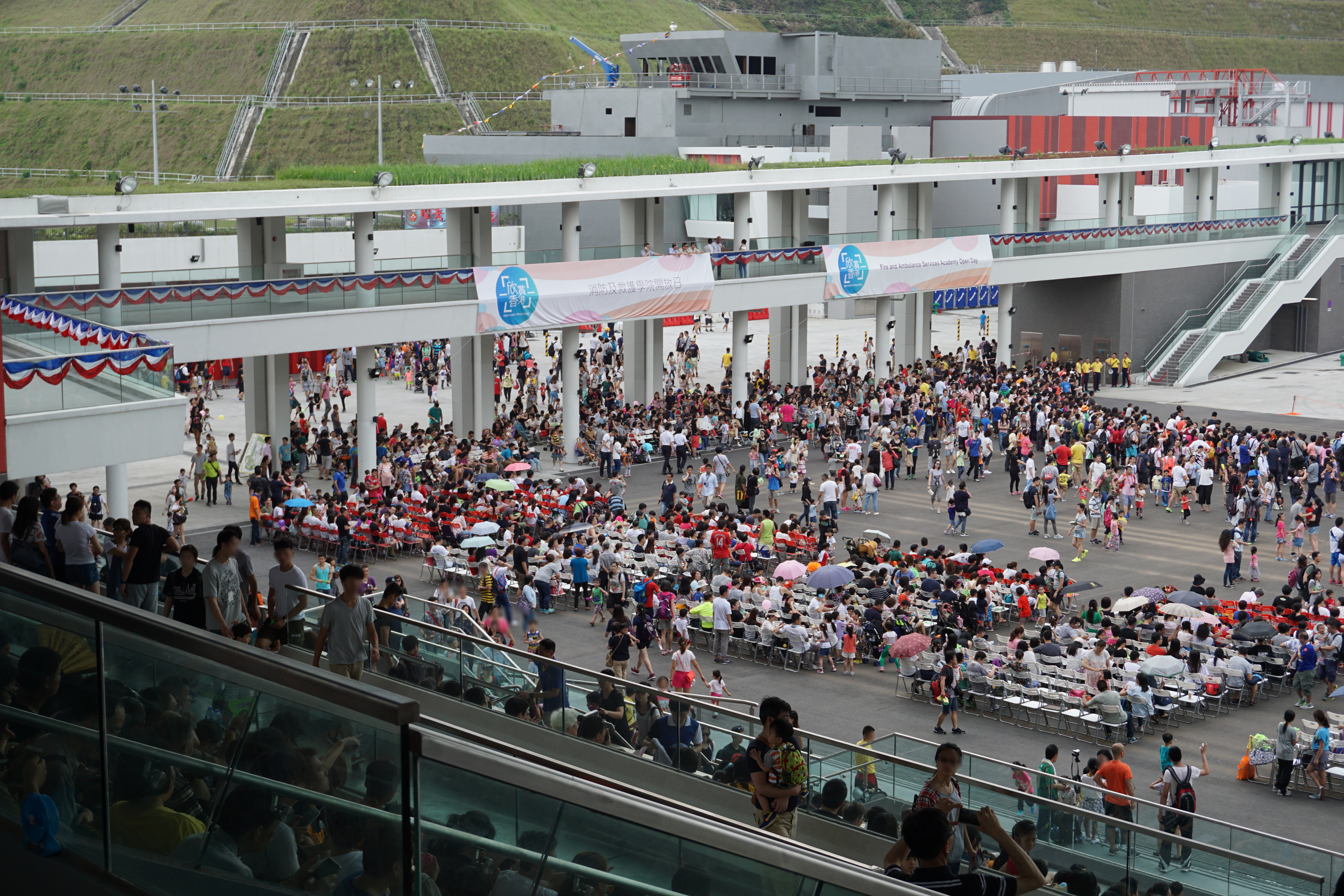 Fire and Ambulance Services Academy in Tseung Kwan O, Hong Kong.